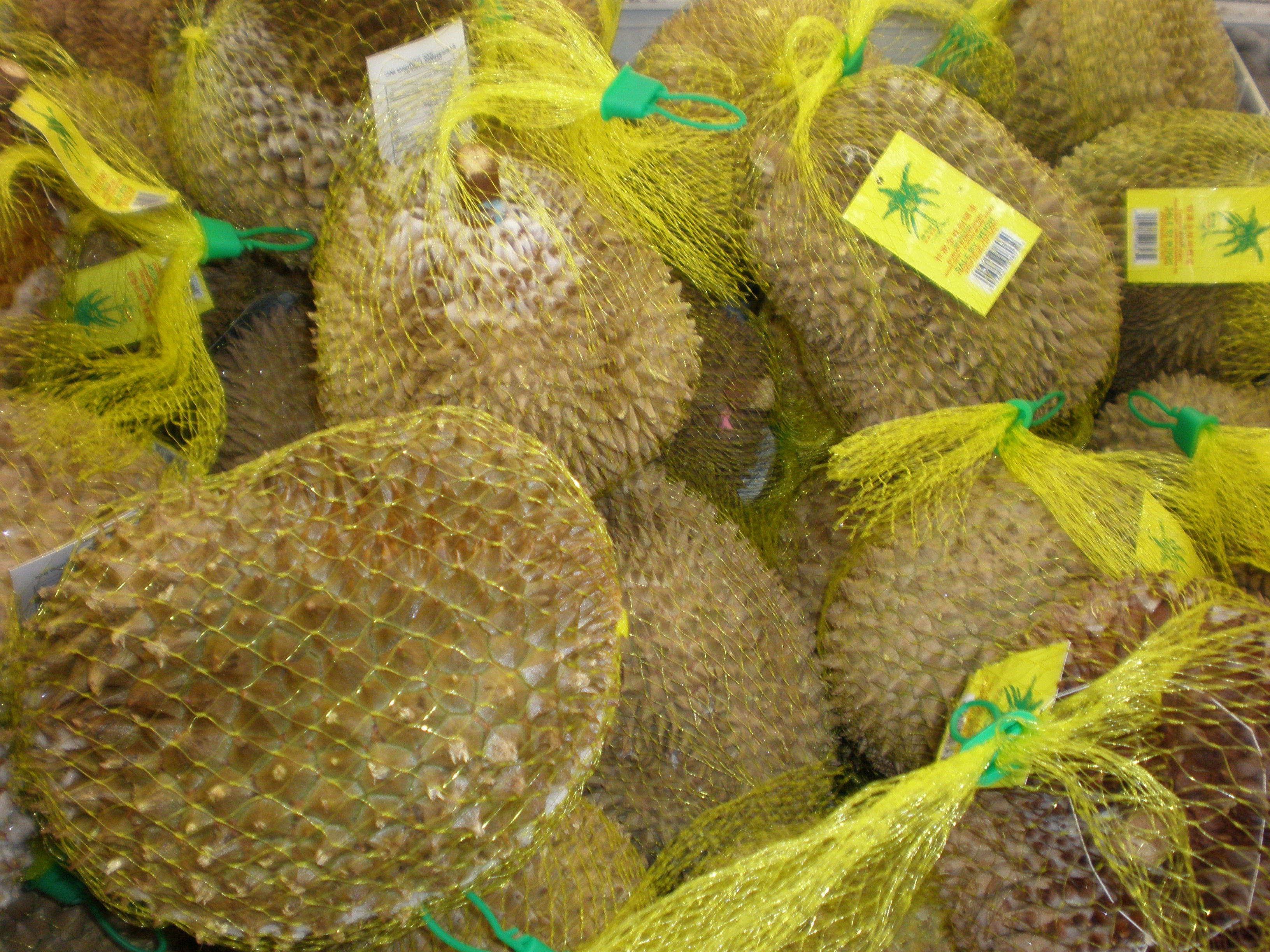 Durians for sale in an Asian supermarket in Daly City, California.